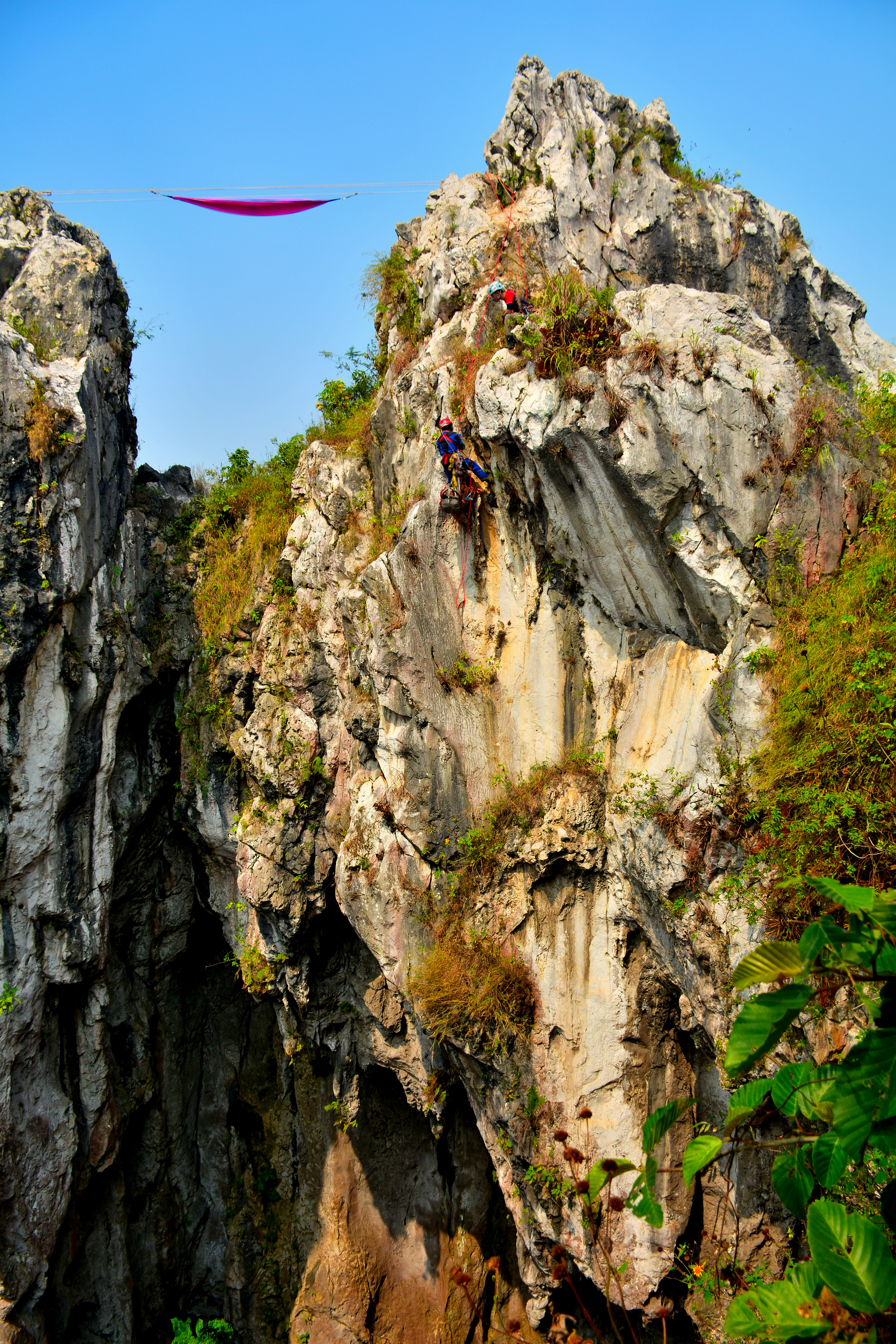 There are several cliffs in Citatah, one of it is the 125 meters tall cliff that is renowned as Citatah 125